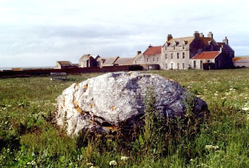 Gneiss rock at Scar Farm